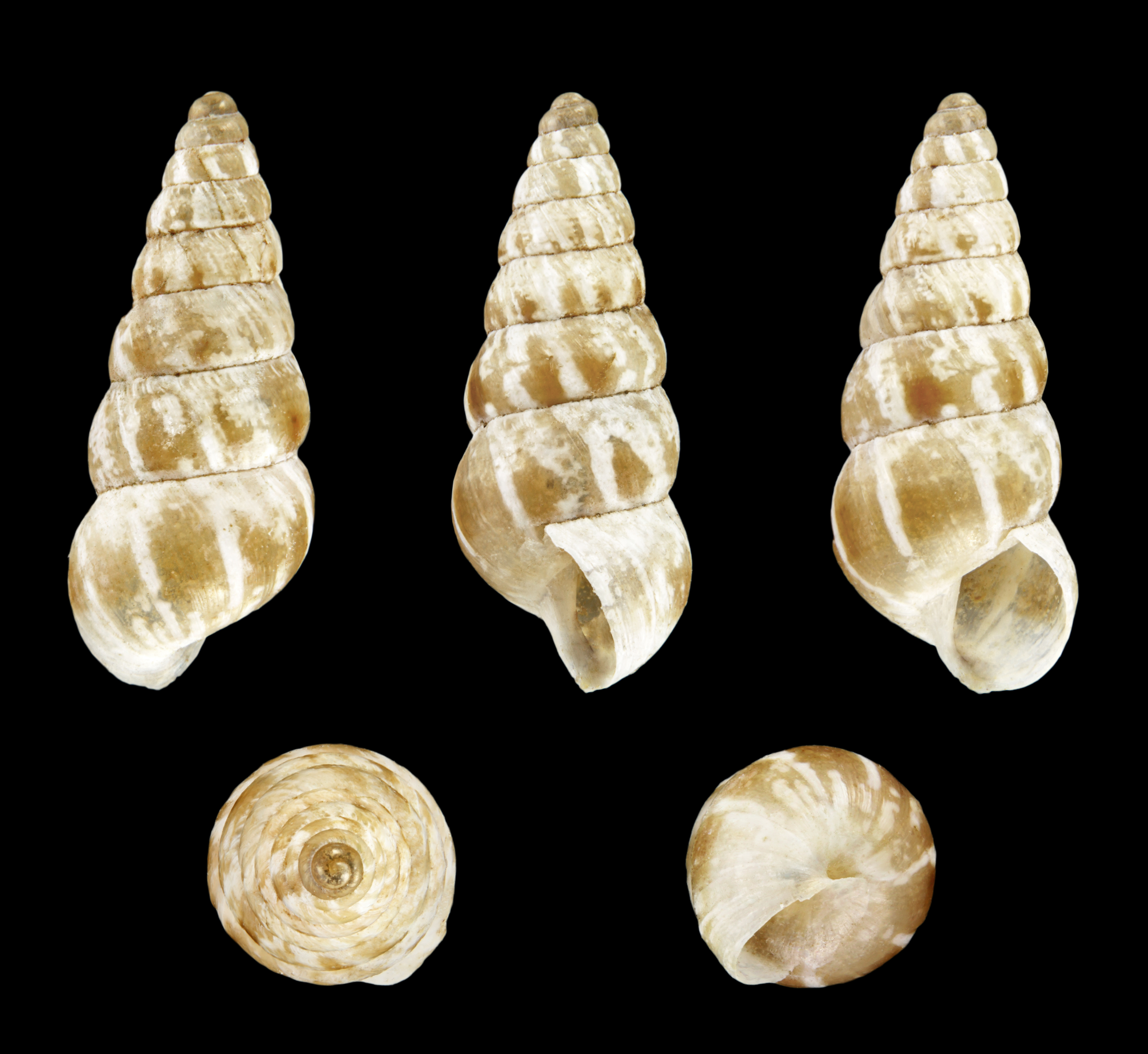 Length 1.1 cm; Originating from Pyllos, Greece; Shell of own collection, therefore not geocoded. Dorsal, lateral (right side), ventral, back, and front view.